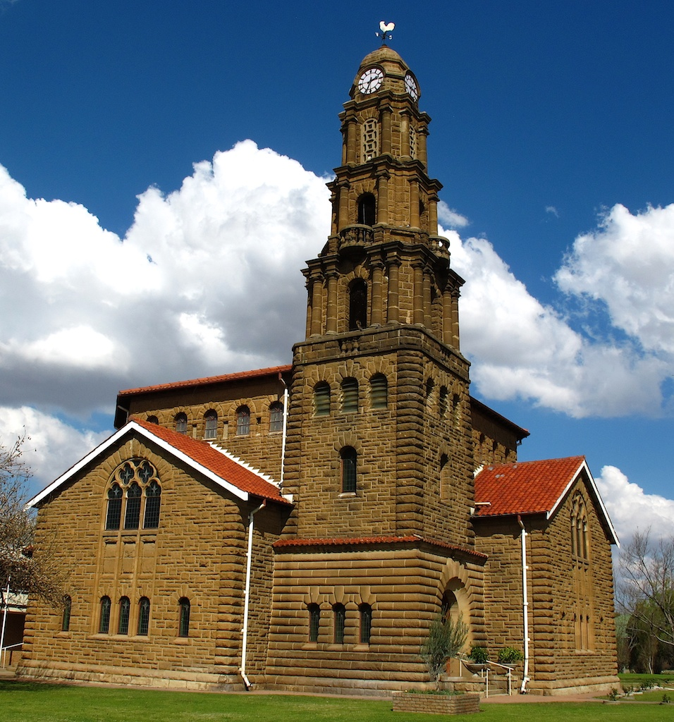 NG Noord Gemeente in Kroonstad Noord This media shows a South African Protected Site with SAHRA file reference 9/2/324/0003.